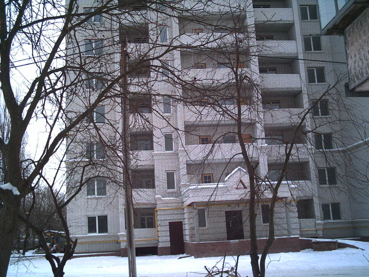 Prolisky - The Eastern Edge of Kyiv, one of the most beautiful villages in the area